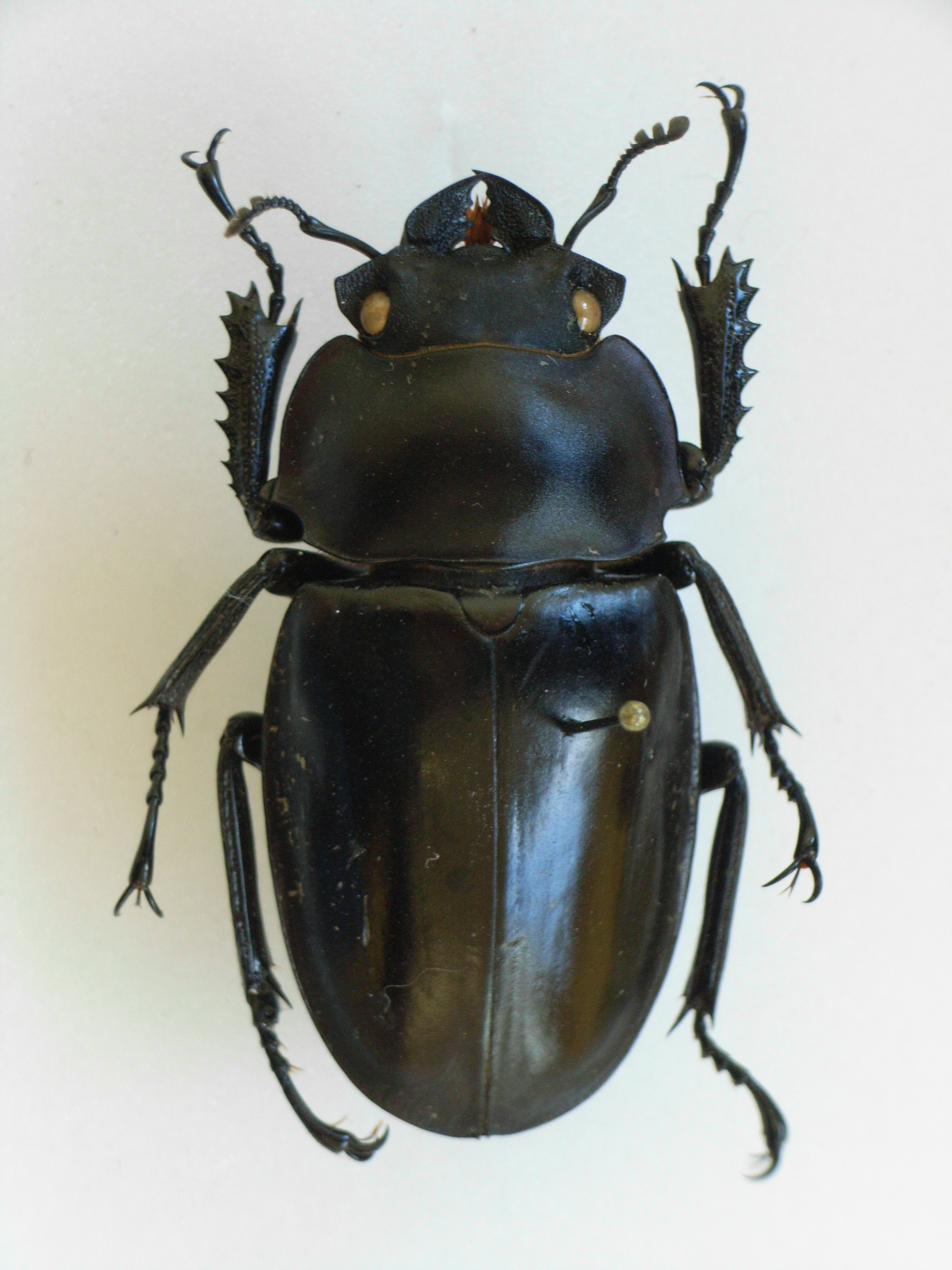 Dorcus bucephalus (Perty,1831) Female Ex coll.Felix Stumpe